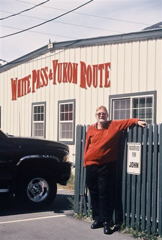 I took this photo on time lapse on a trip to Alaska in 2004